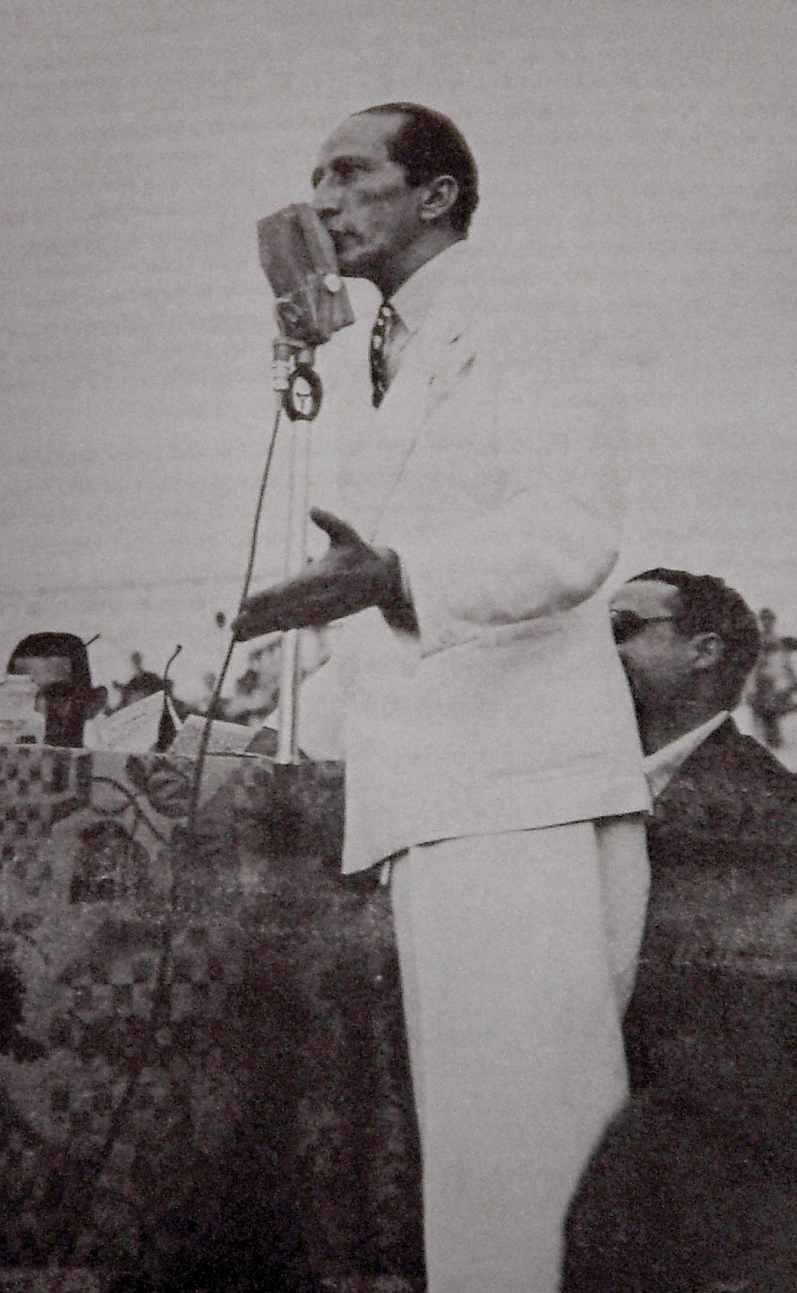 Andrés Eloy Blanco during a speech at the Nuevo Circo de Caracas in 1941.